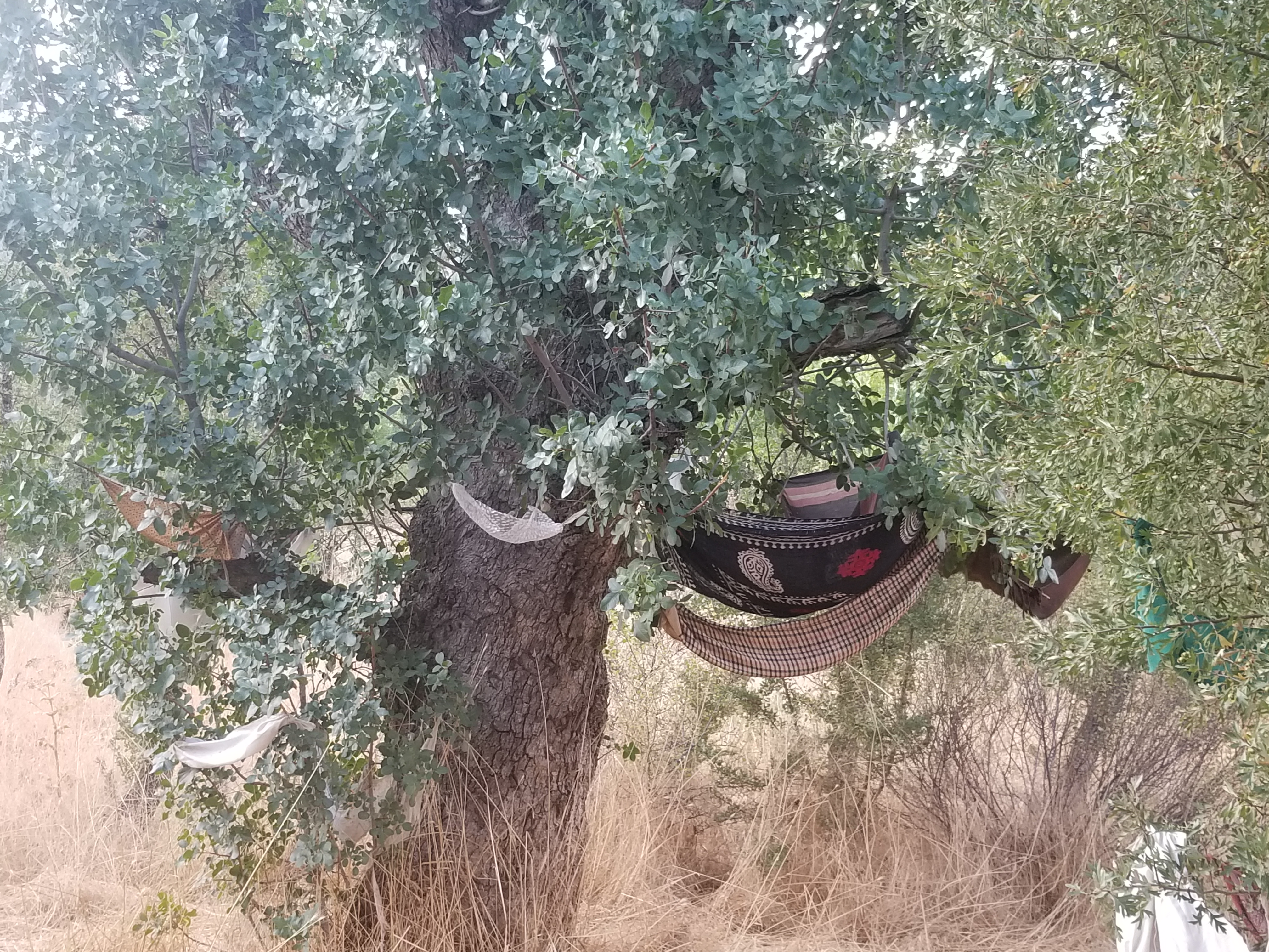 A hawri hanged from a tree as a Melu in a cemetary in Kurdistan کوردی: ھەورییەک کراوە بە مێلوو لە شەخسێکدا لە کوردستان.